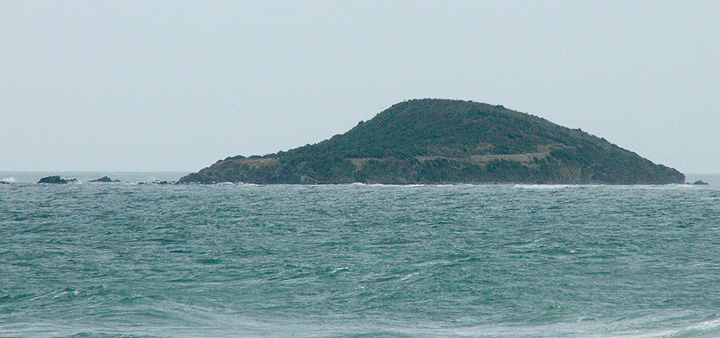 Taieri Island / Moturata Island, off the coast of Taieri Mouth, New Zealand